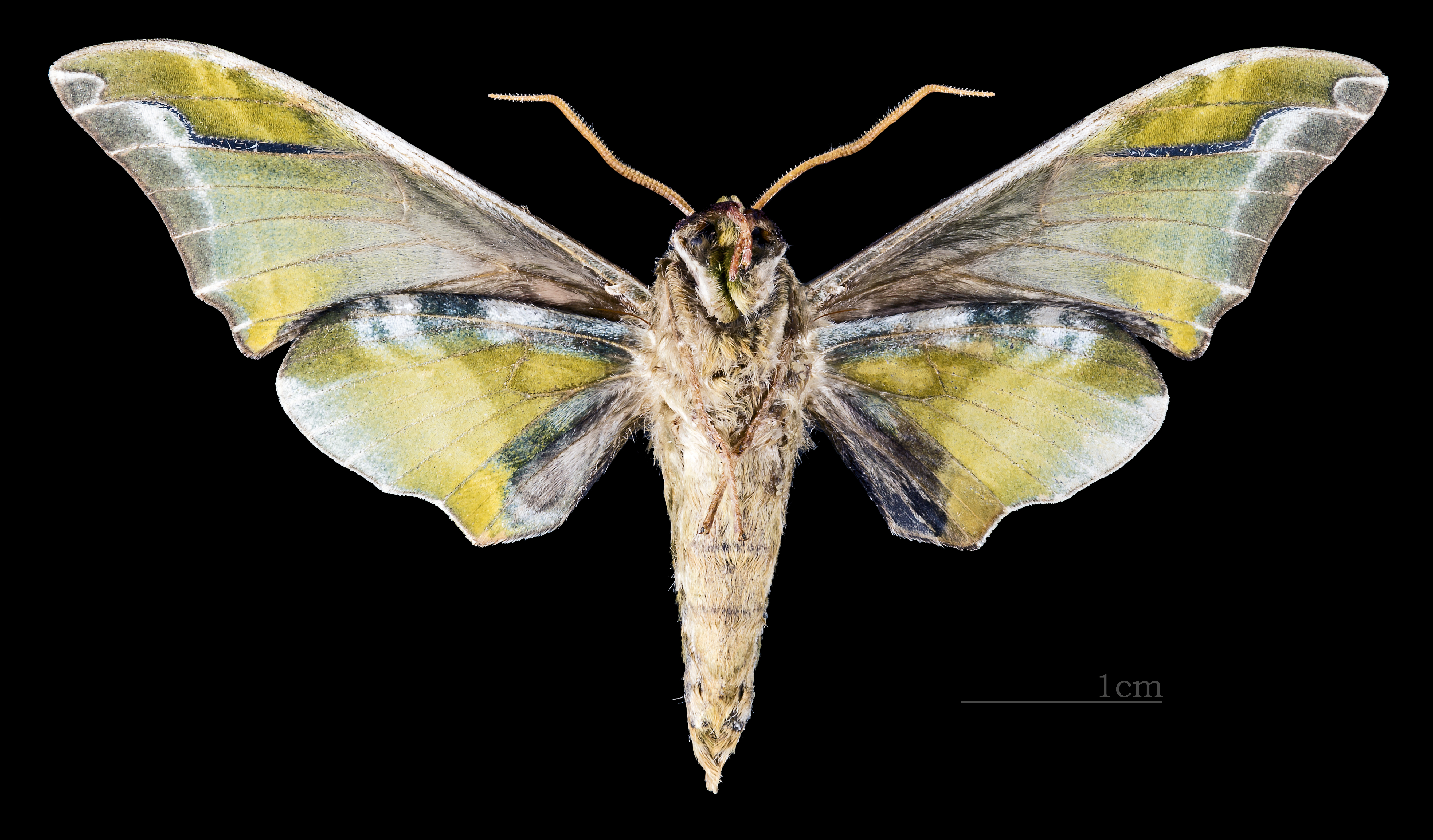 Callambulyx sinjaevi - △ Ventral side Paratype Collection of the Mathematician Laurent Schwartz